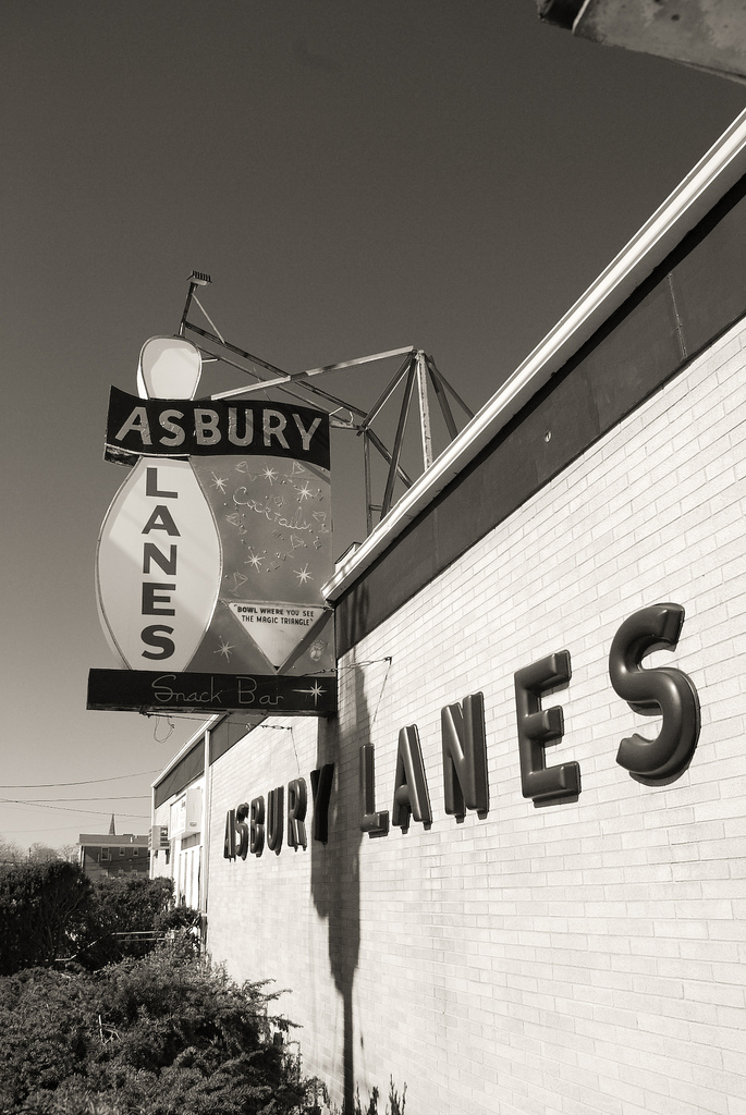 Asbury Lanes, a nightclub housed in a former bowling alley, Asbury Park, New Jersey